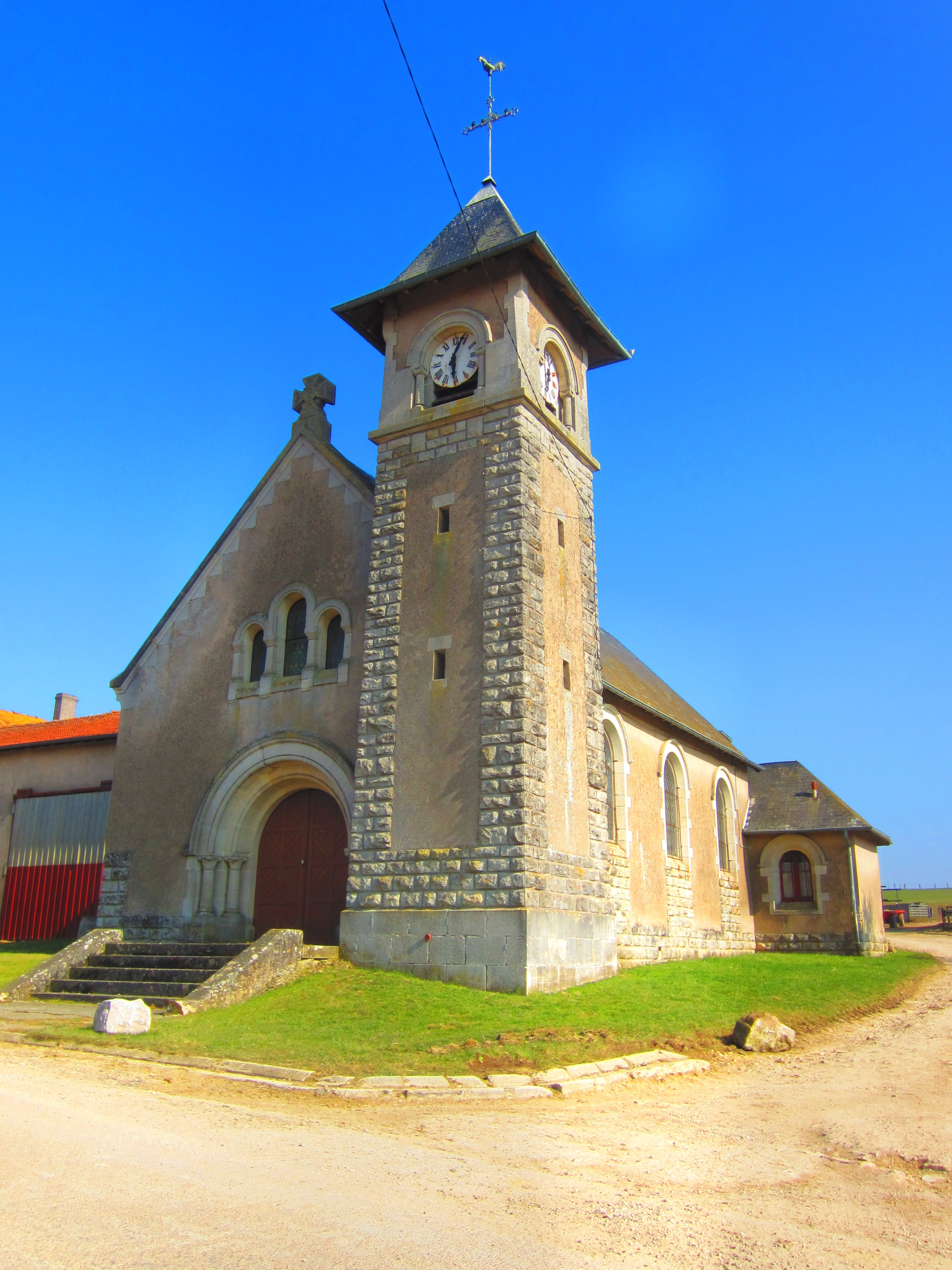 Lahayville church